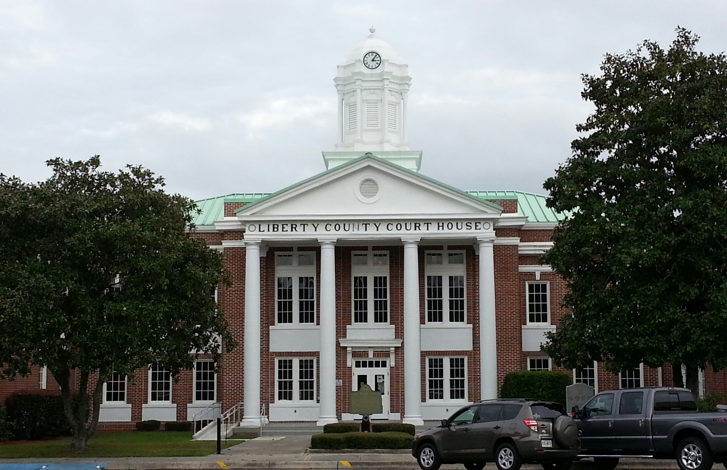 Liberty County Court House, Liberty County, Georgia, USA